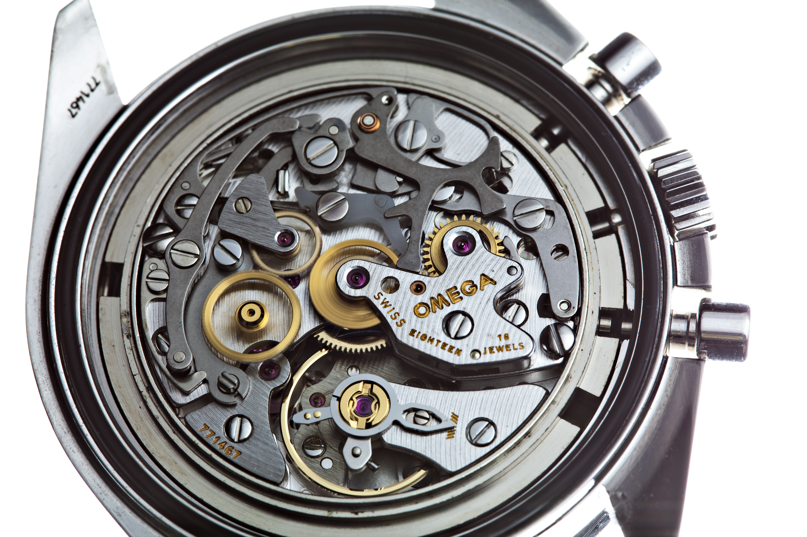 Omega Cal. 1861 chronograph movement, with 30 minute and 12 hour registers. As found in a 3570.50 Omega Speedmaster watch. Compare with the vintage cal. 321 "Moon watch" movement